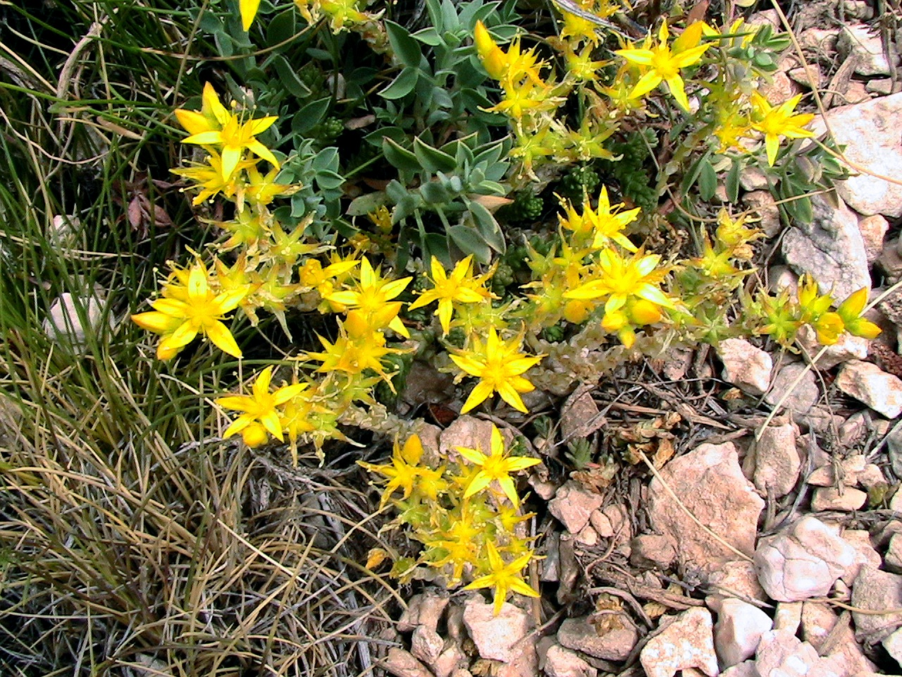 Sedum acre. In la Bòfia, Odèn (Solsonès - Catalunya). To 1.830 m. altitude